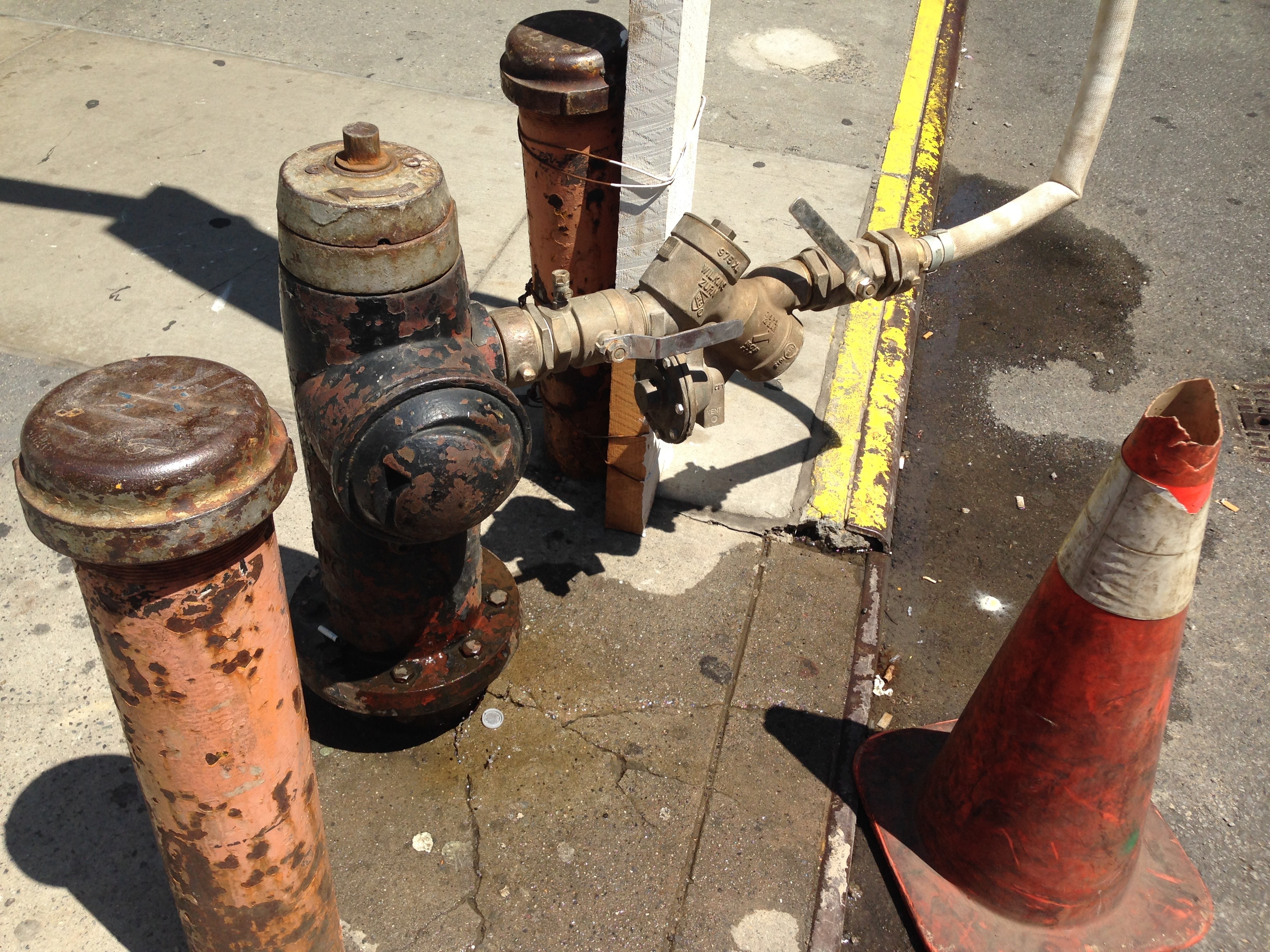 Reduced pressure zone device (also known as reduced pressure principle assembly) connected to a fire hydrant at a construction site.